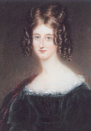 Augusta Byron (1783-1851), later The Honourable Augusta Leigh, was the half-sister of Lord Byron.